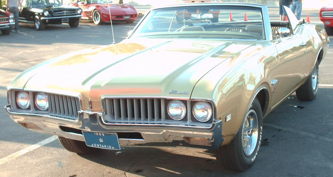 1969 Oldsmobile Cutlass Convertible photographed in Montreal, Quebec, Canada at Gibeau Orange Julep.